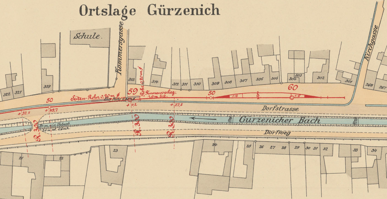 Gürzenich Kirche tram terminus